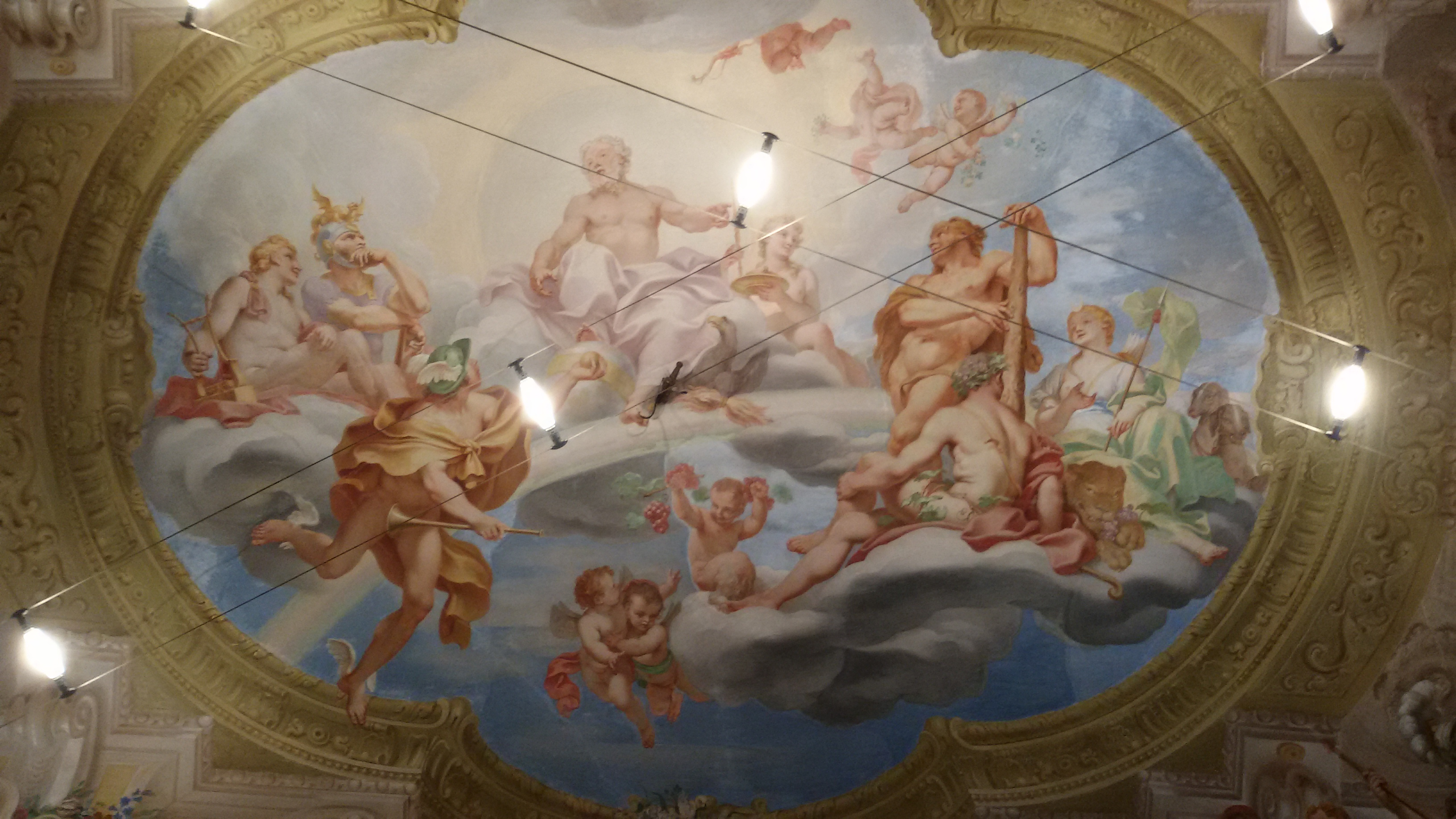 Doge Ferretto Palace in Genoa